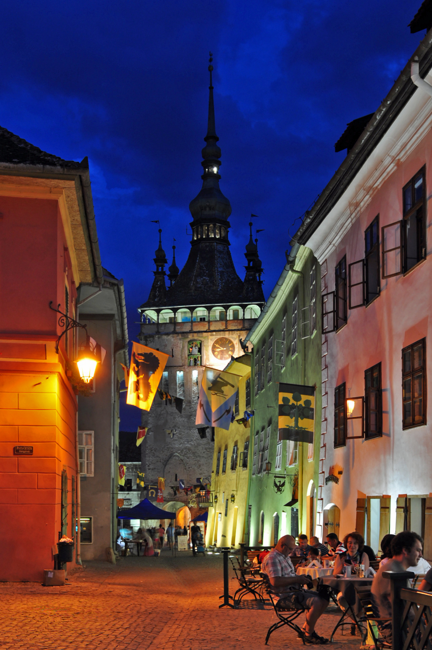 Sighisoara - Strada Turnului